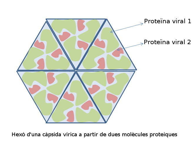 Schematic diagram of the hexon of a virus capsid